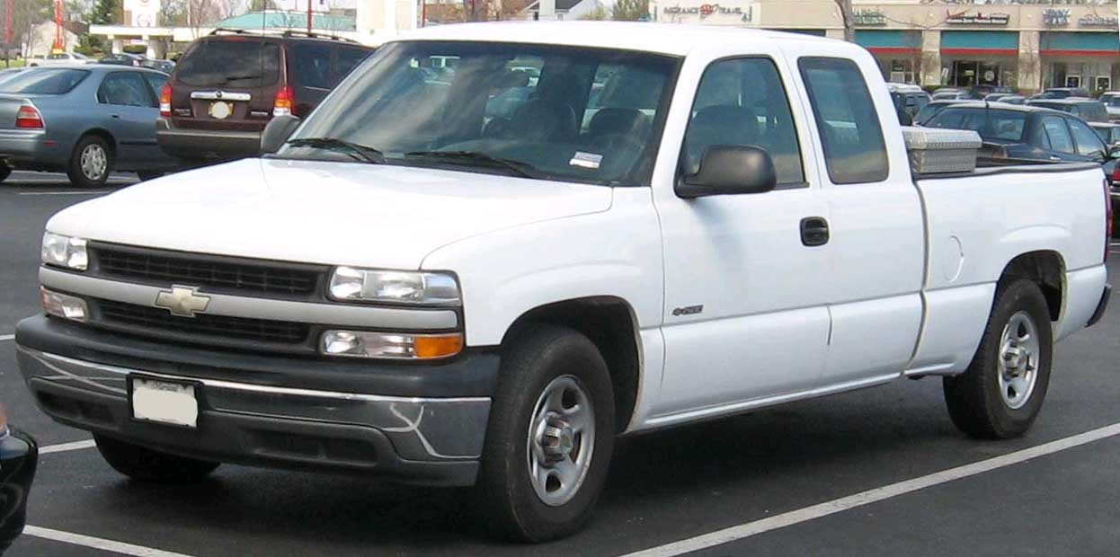 1999-2002 Chevrolet Silverado photographed in USA.